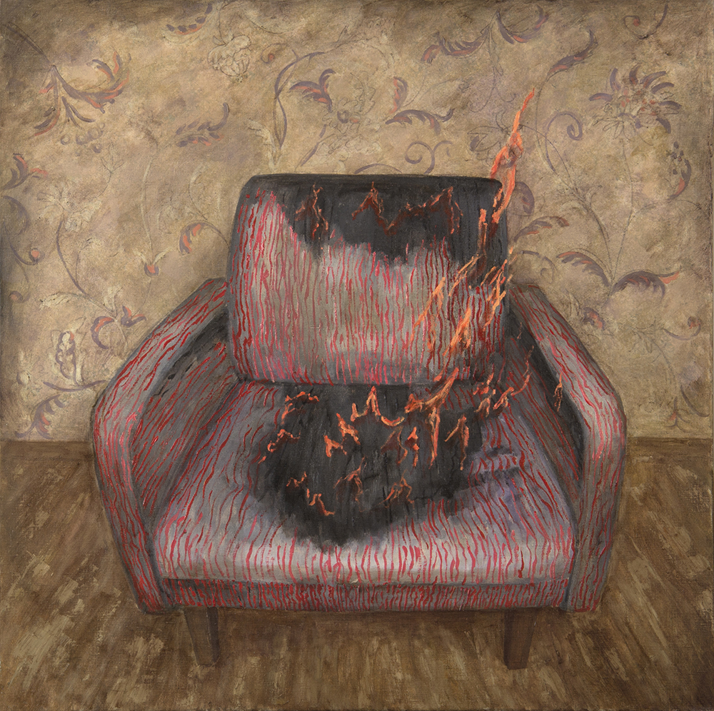 Painting by Pisha Larysa- Accident 2018